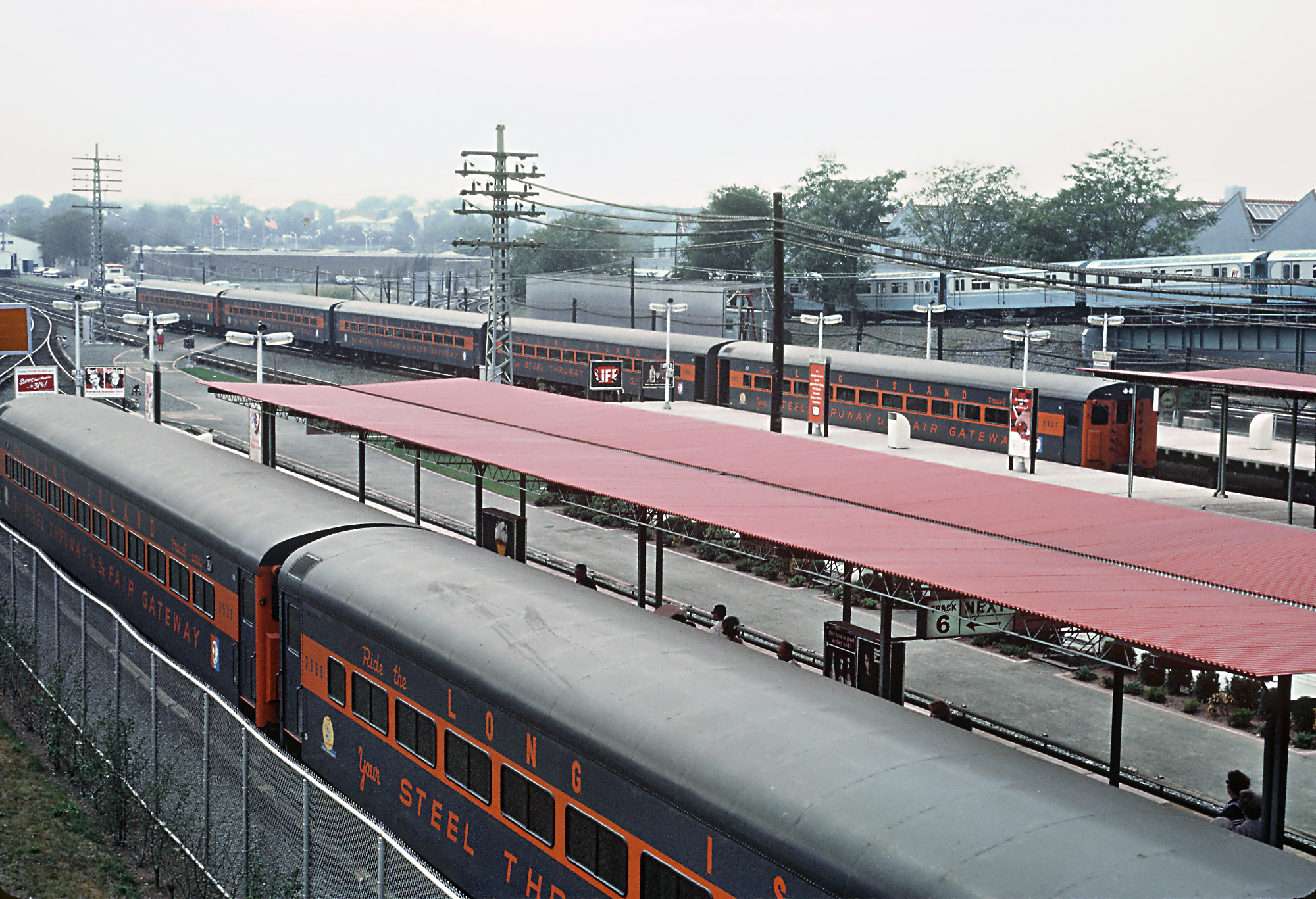 Long Island RR A Roger Puta Photo